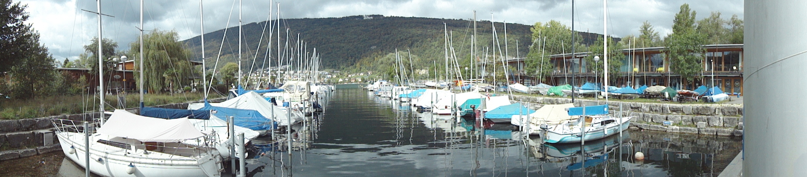 Panoramic view of Port of Nidau